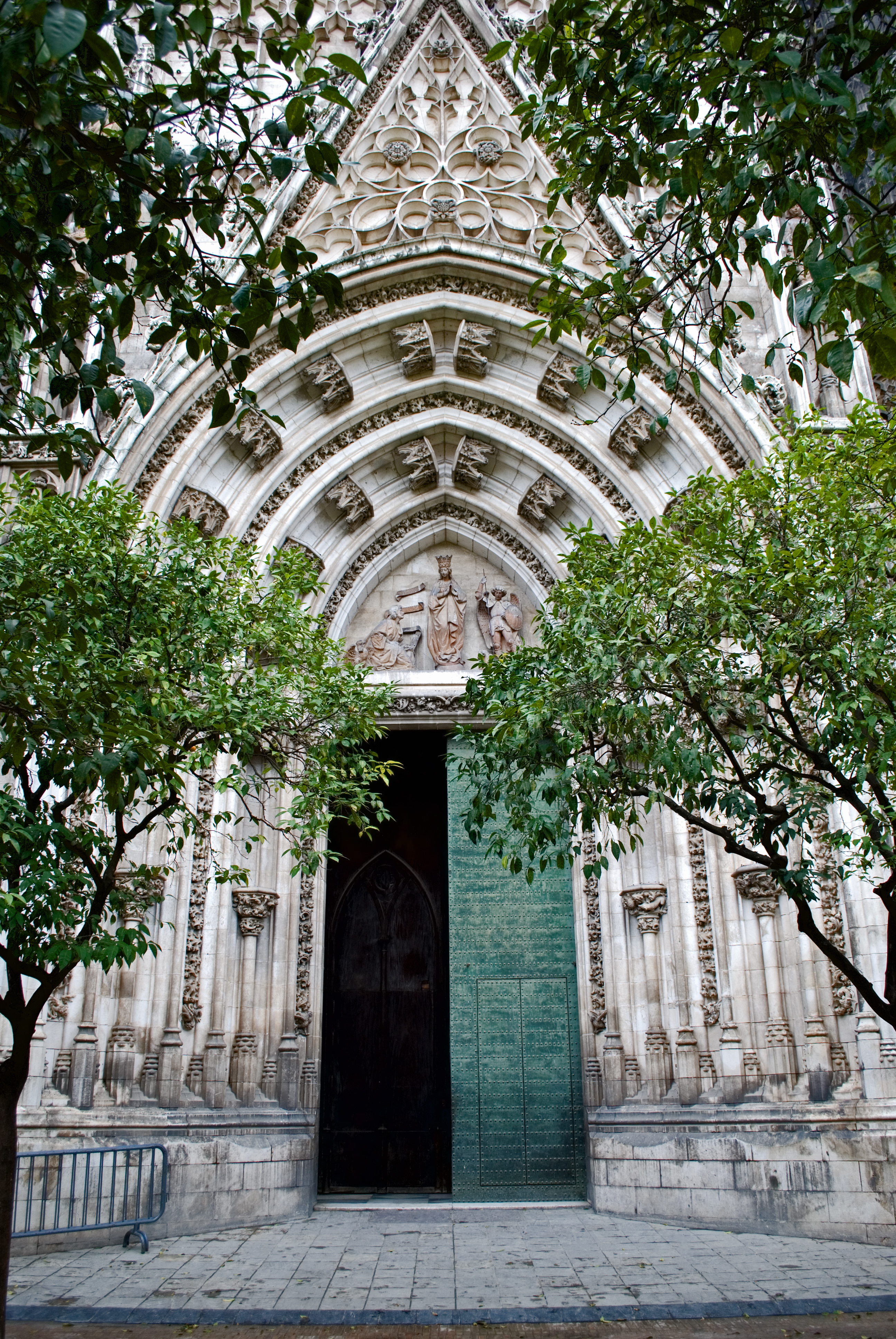 View of the Puerta de la Concepción portal in the 'Patio of the Oranges' courtyard - Cathedral of Seville, Spain.